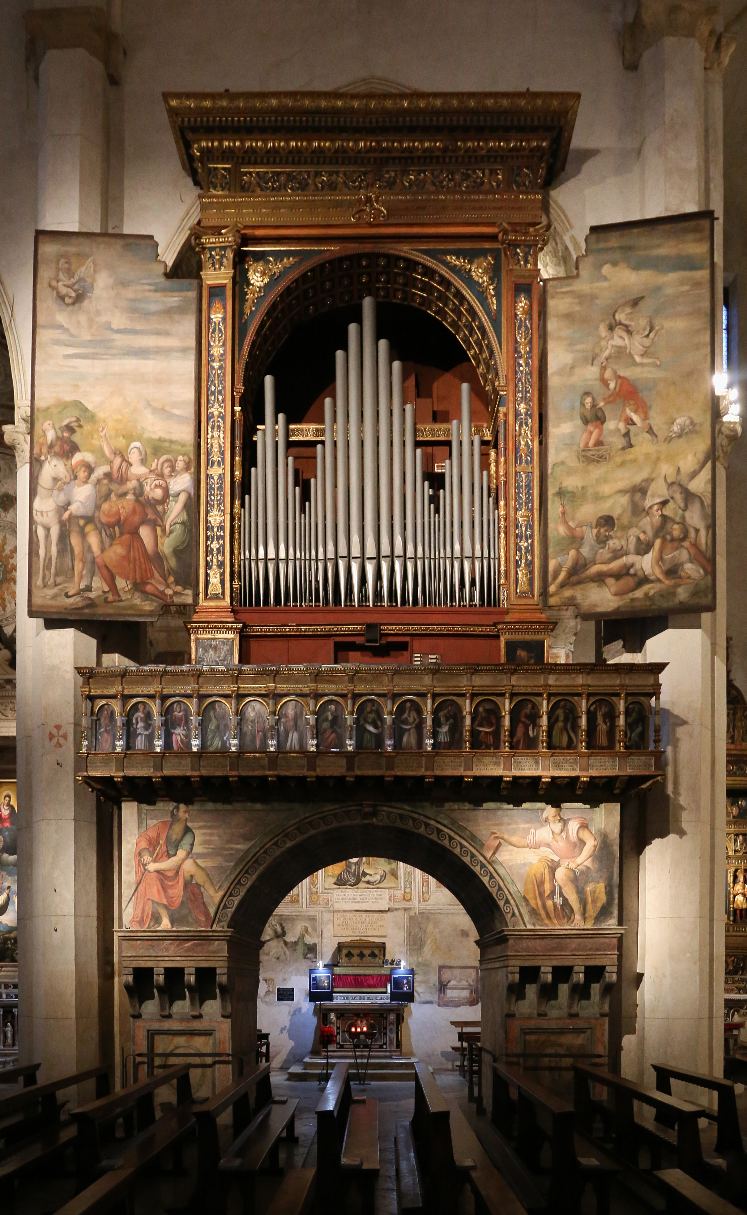 Chiesa di Sant'Andrea (Asola) - Pipe organ